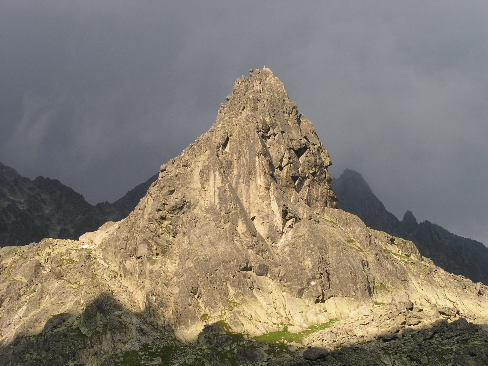 Kostolik peak, above Batizovská dolina valley, Tatra National Park, northern Slovakia.